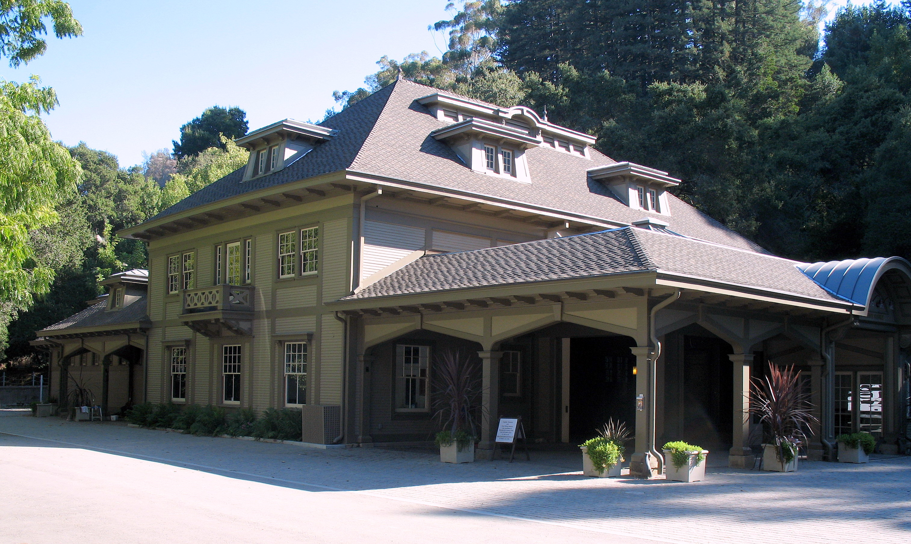 Stables — Folger Estate Stable Historic District, 4040 Woodside Rd., Woodside, California Historic District contributing property, on the National Register of Historic Places listings in San Mateo County, California.